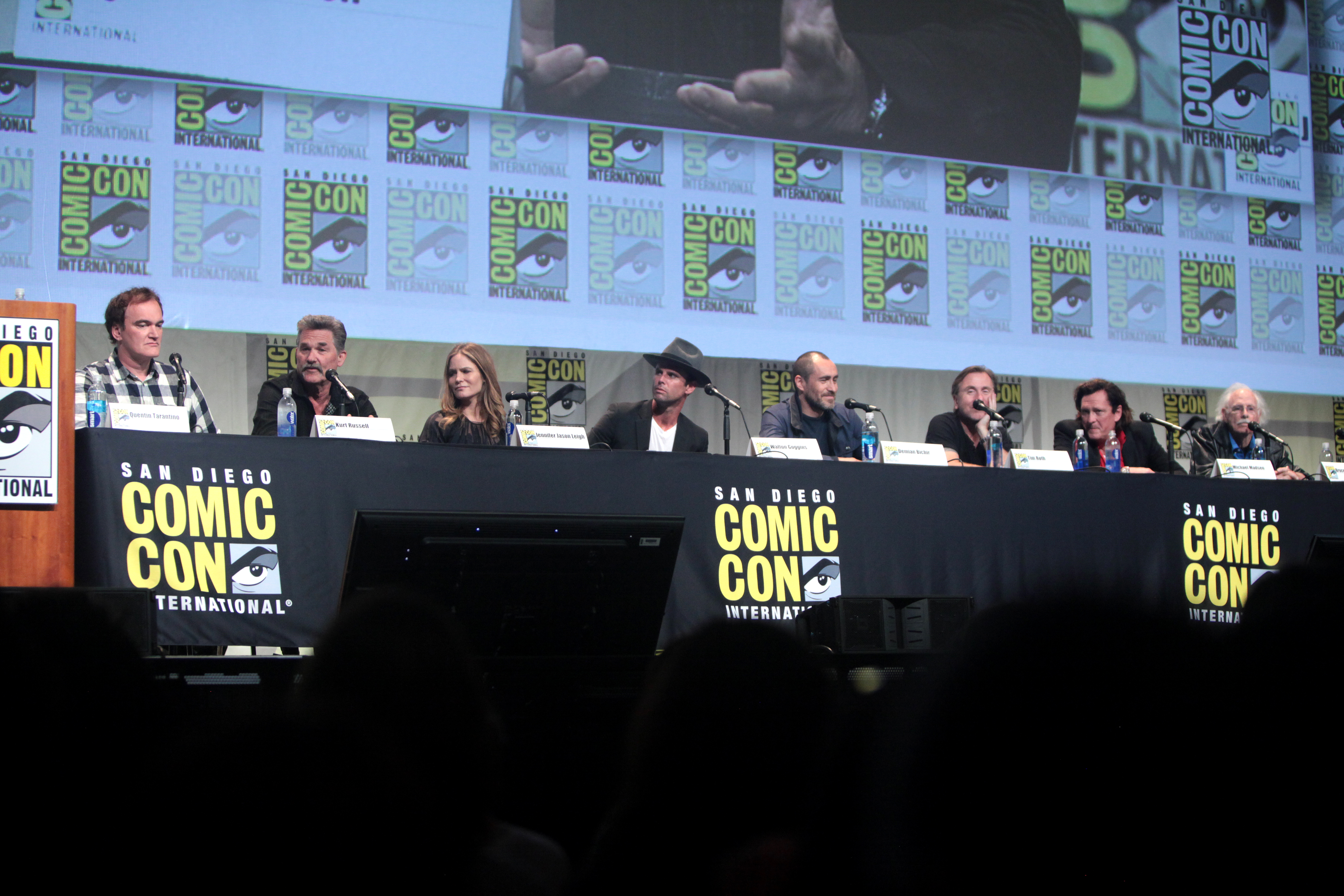 Quentin Tarantino, Kurt Russell, Jennifer Jason Leigh, Walton Goggins, Demian Bichir, Tim Roth, Michael Madsen and Bruce Dern speaking at the 2015 San Diego Comic Con International, for "The Hateful Eight", at the San Diego Convention Center in San Diego, California.